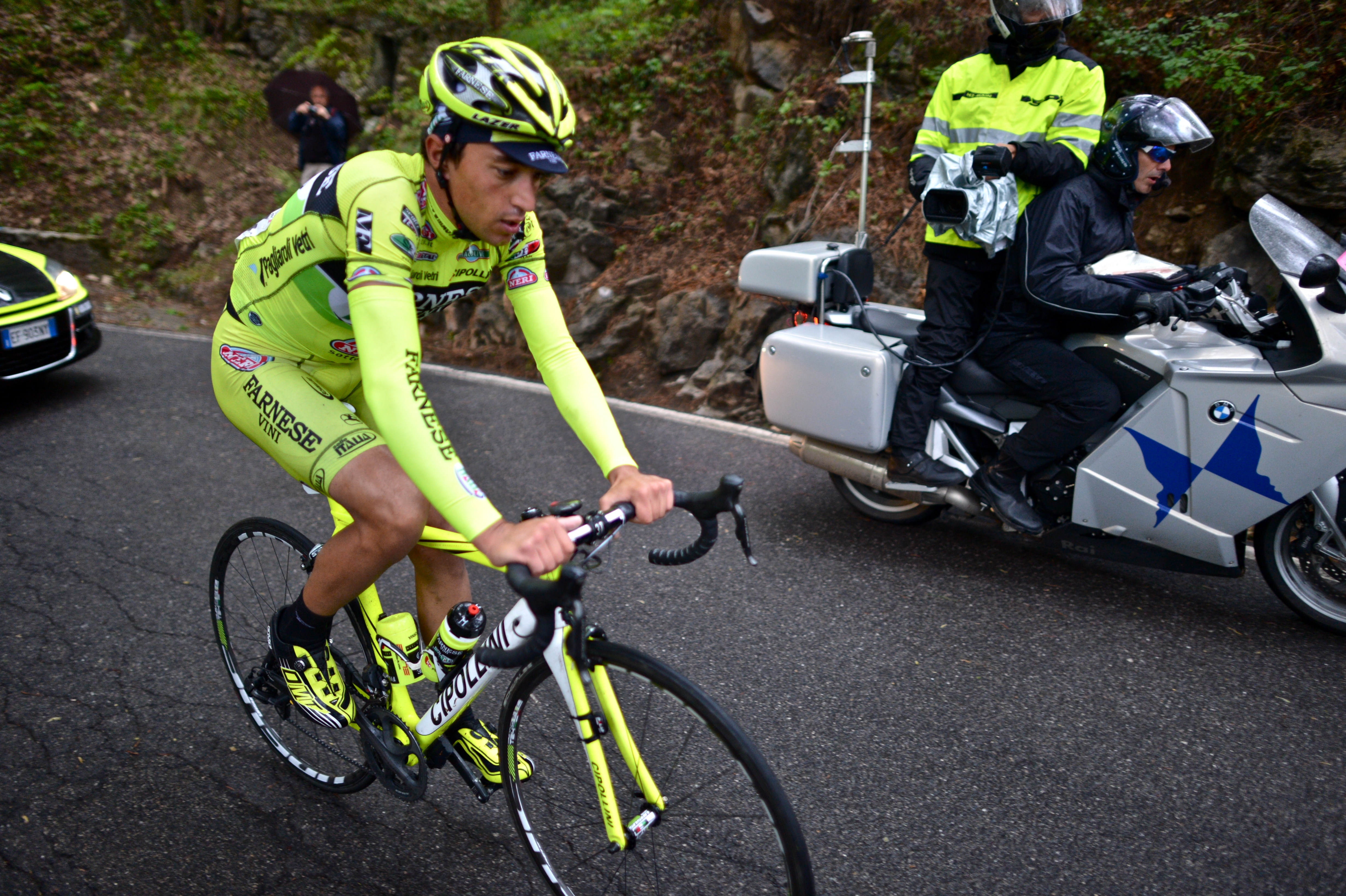 Matteo 'Rambo' Rabottini, look at his face, that's why he won. Pian dei Resinelli